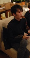 Ryu Umemoto